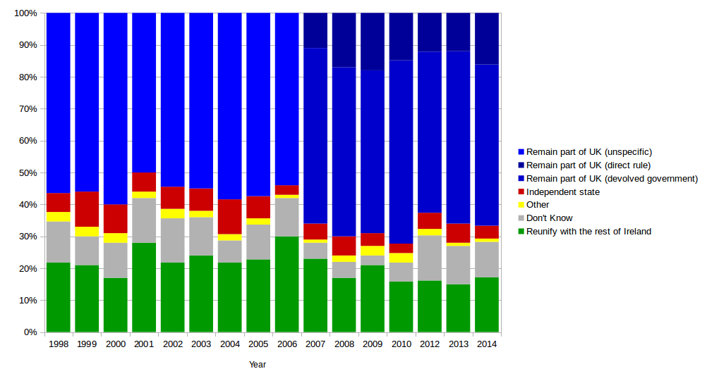 Shows the answer to the question "Do you think the long-term policy for Northern Ireland should be for it," in each year of the Northern Ireland Life and Times survey. (